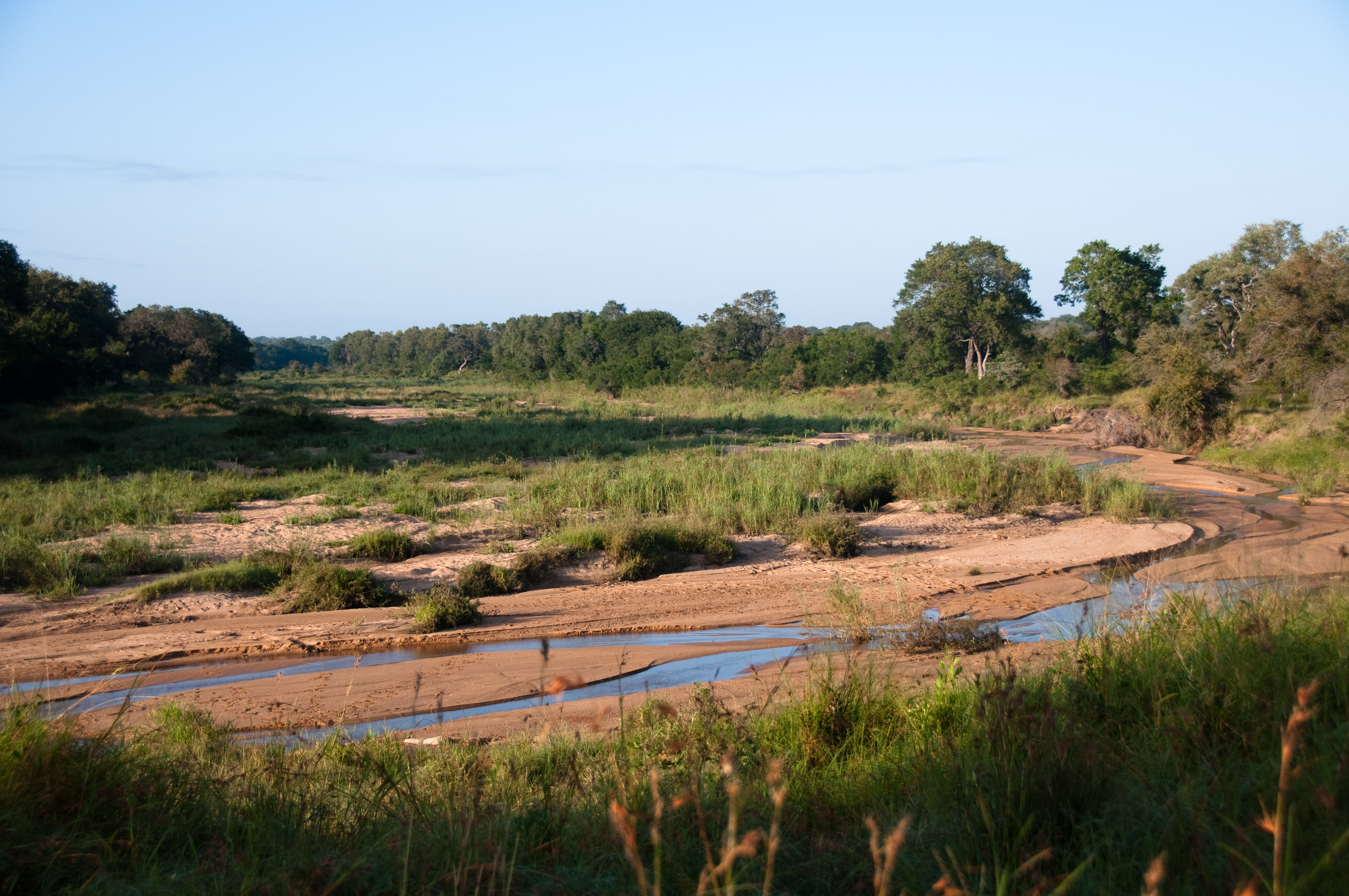 Morning Walk